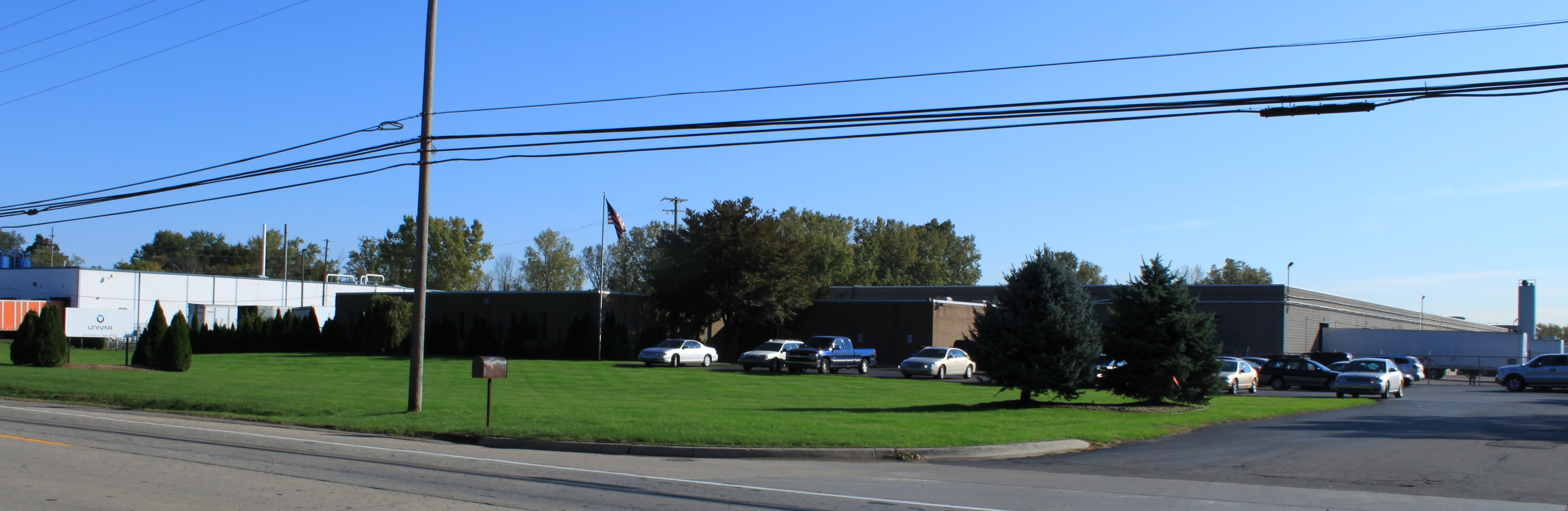 Univar Detroit-Romulus distribution facility, 13395 South Huron River Drive, Romulus, Michigan